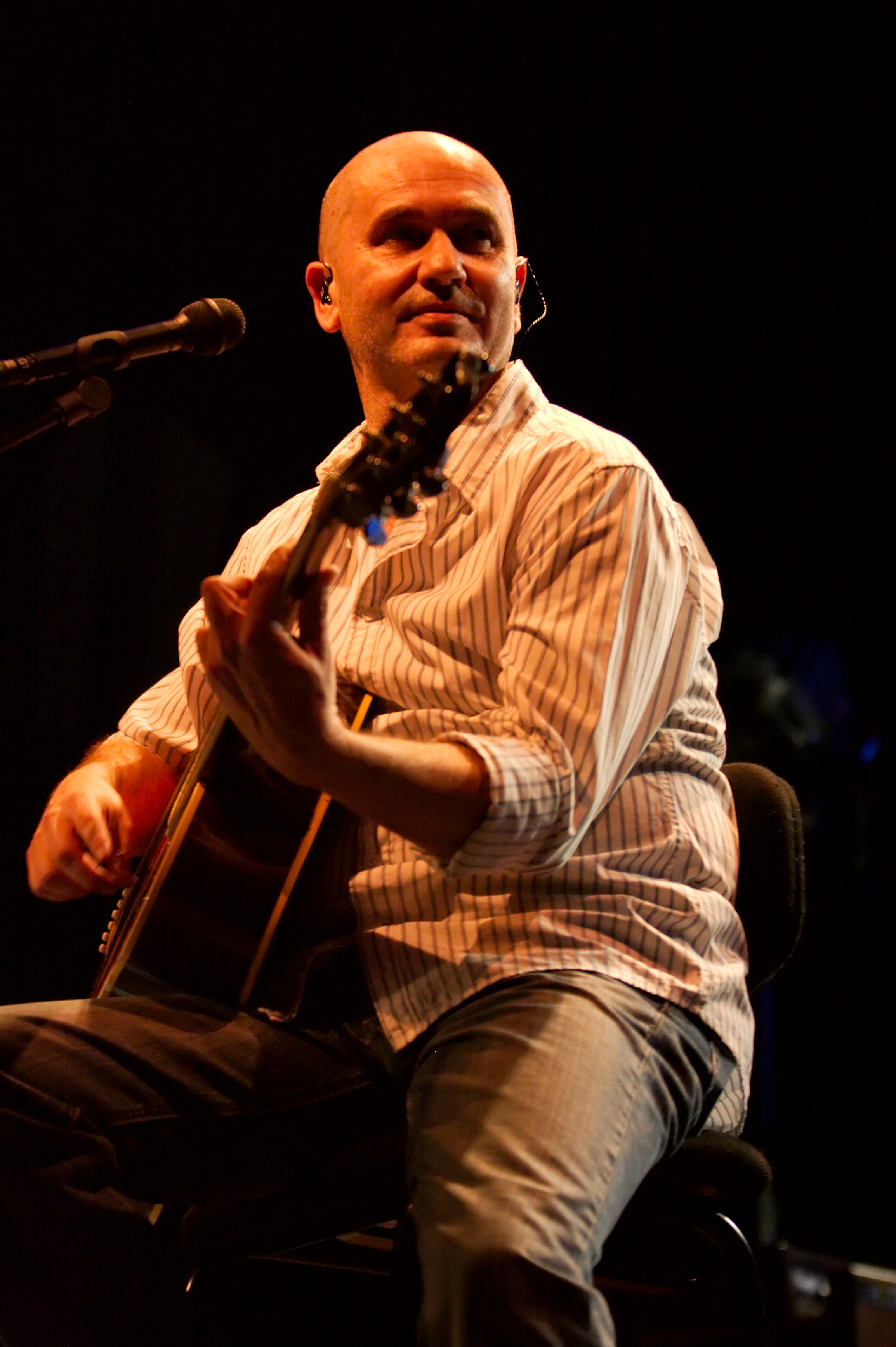 Art Mengo live at Aix-en-Provence (France) for the French song festival 2009.